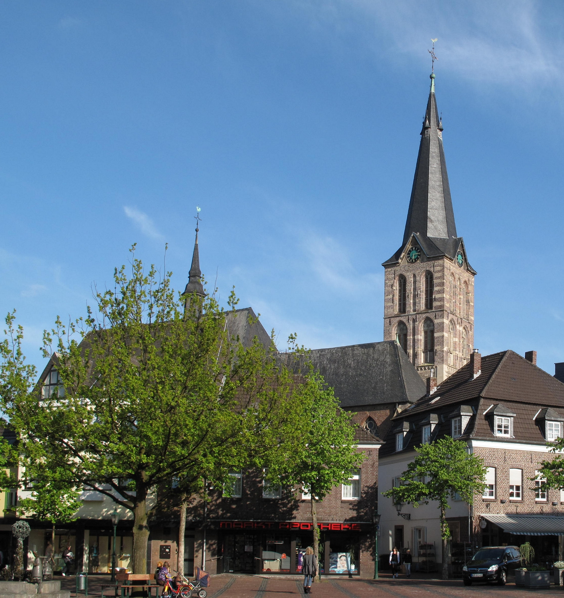 Straelen, church